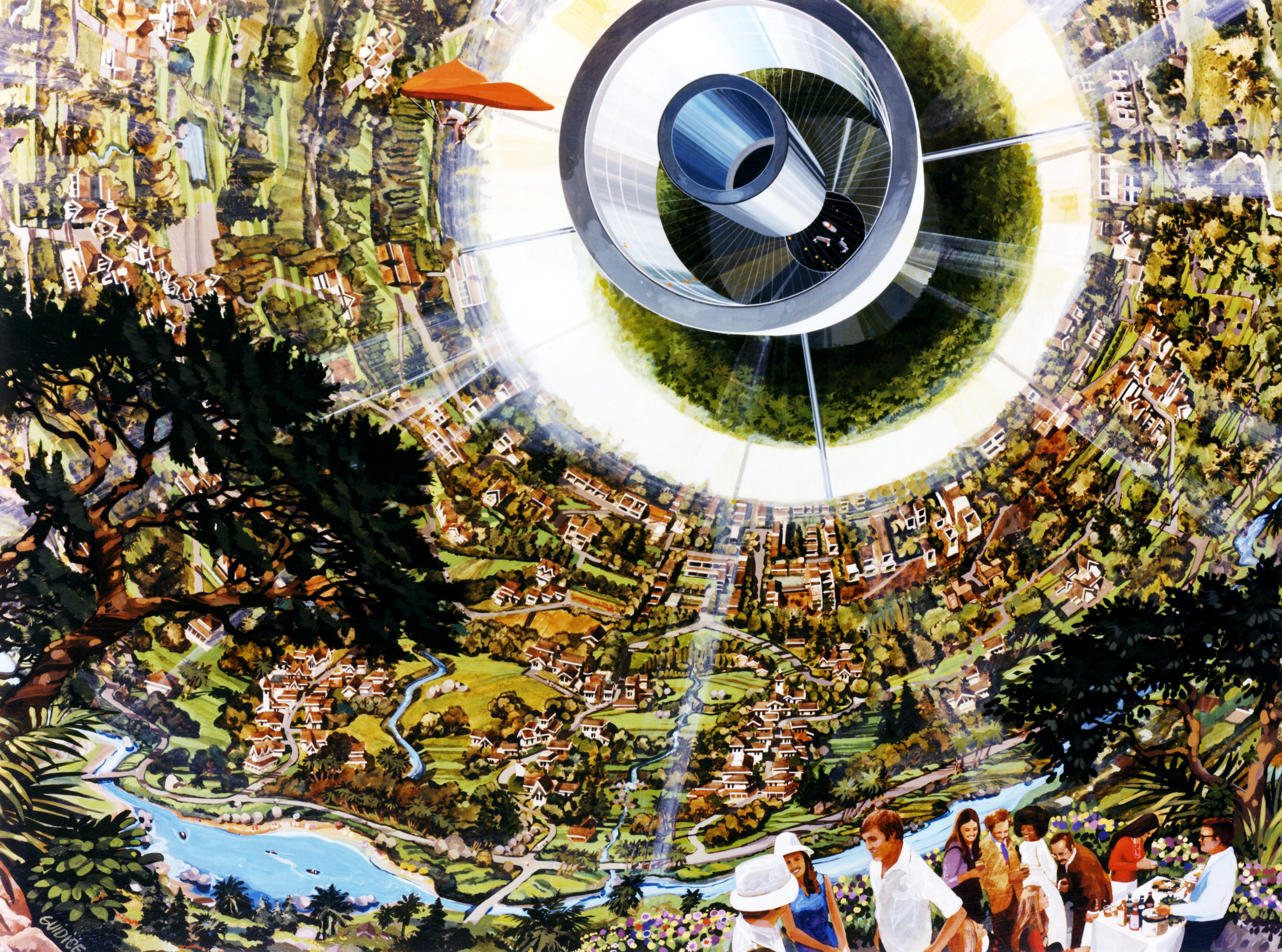 Bernal sphere interior. "Interior including human powered flight". Discussed at "Space oddity: NASA's retro guide to future living" at CNN.